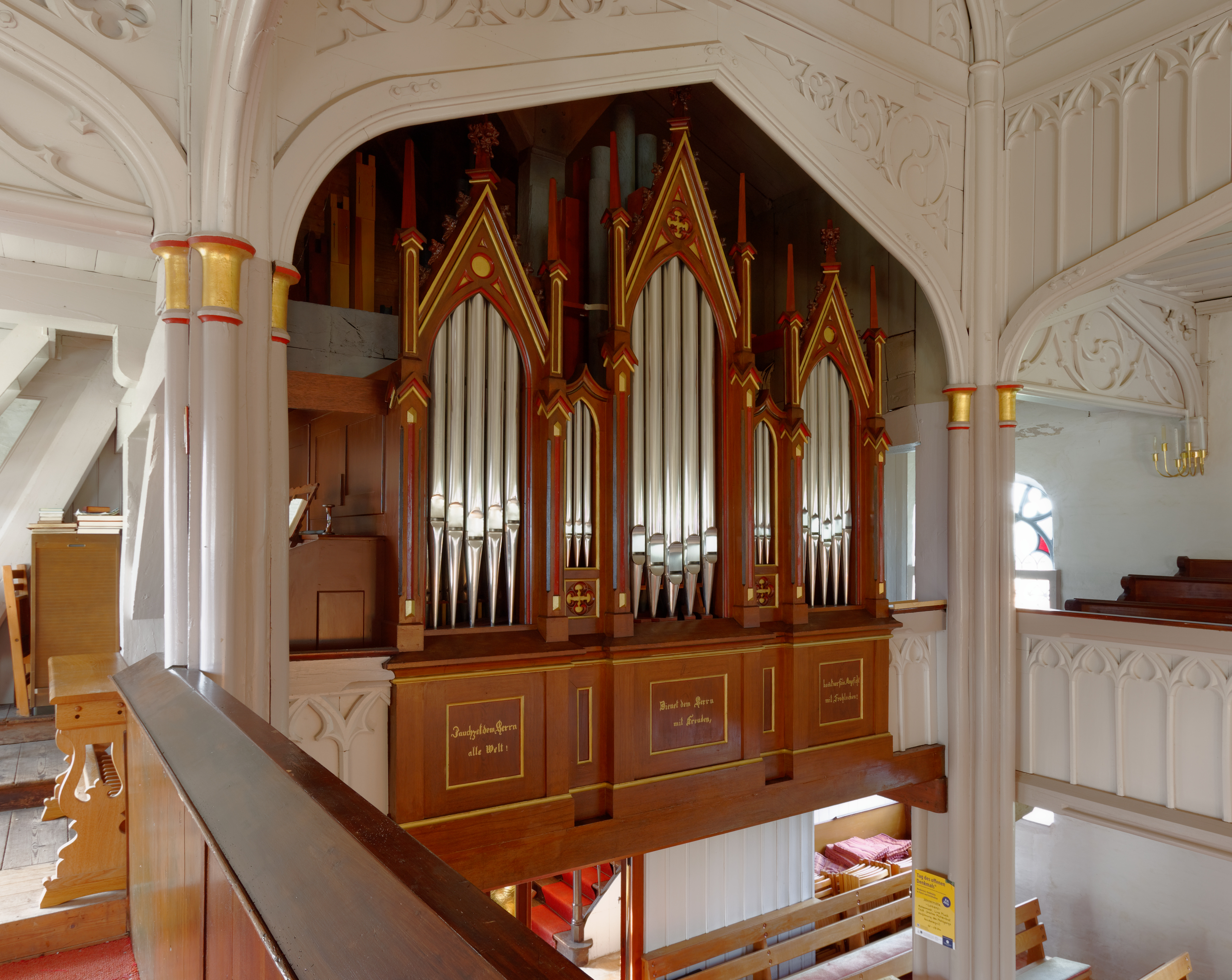 Church St. Maria in Siebenbäumen, pipe organ